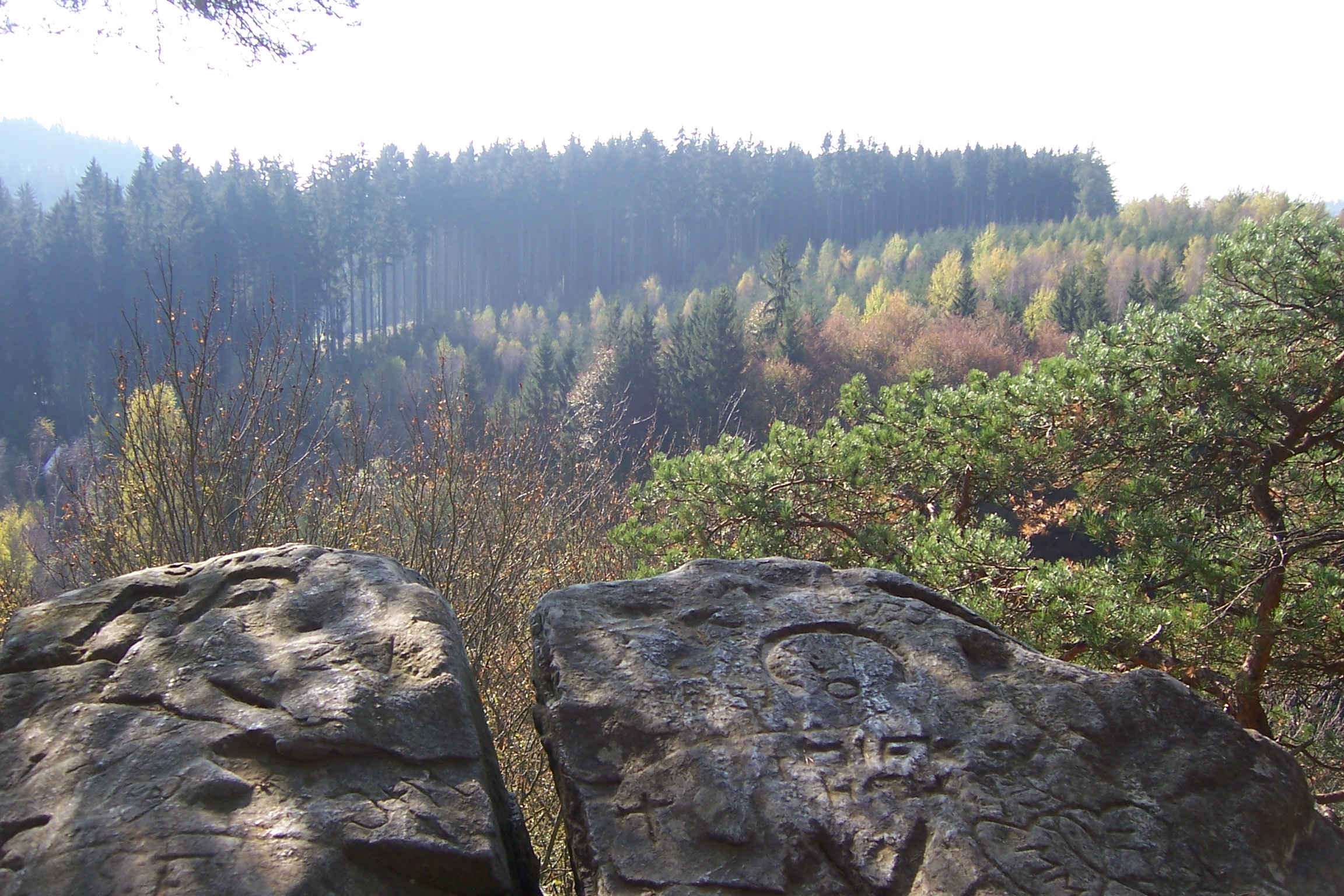 Nature reserve Zaječí skok in Jihlava District, Czech Republic